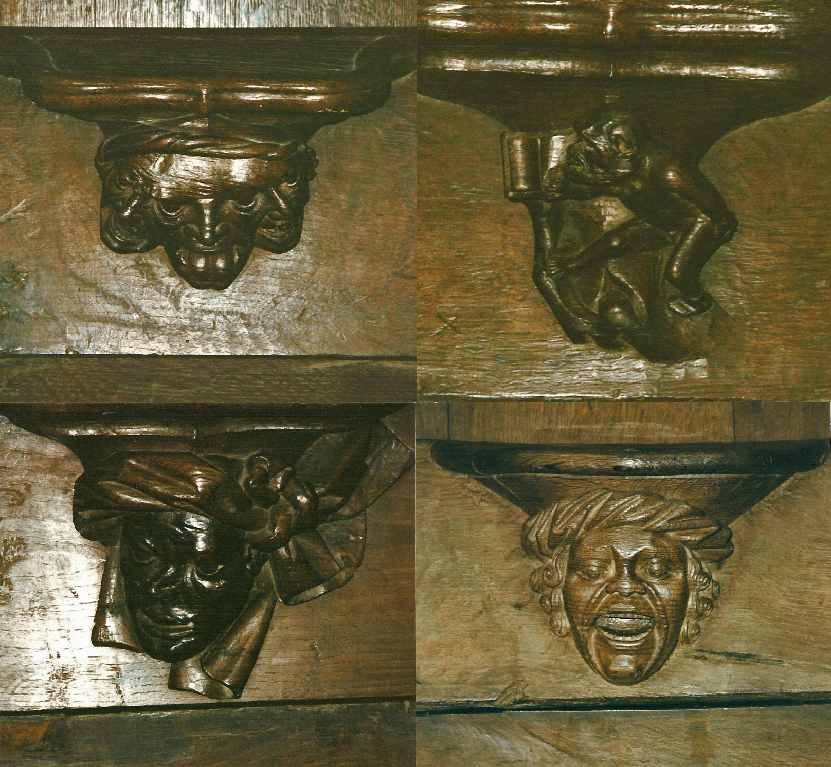 Misericords from choir of the cathedral of St Pol de Leon (29) France